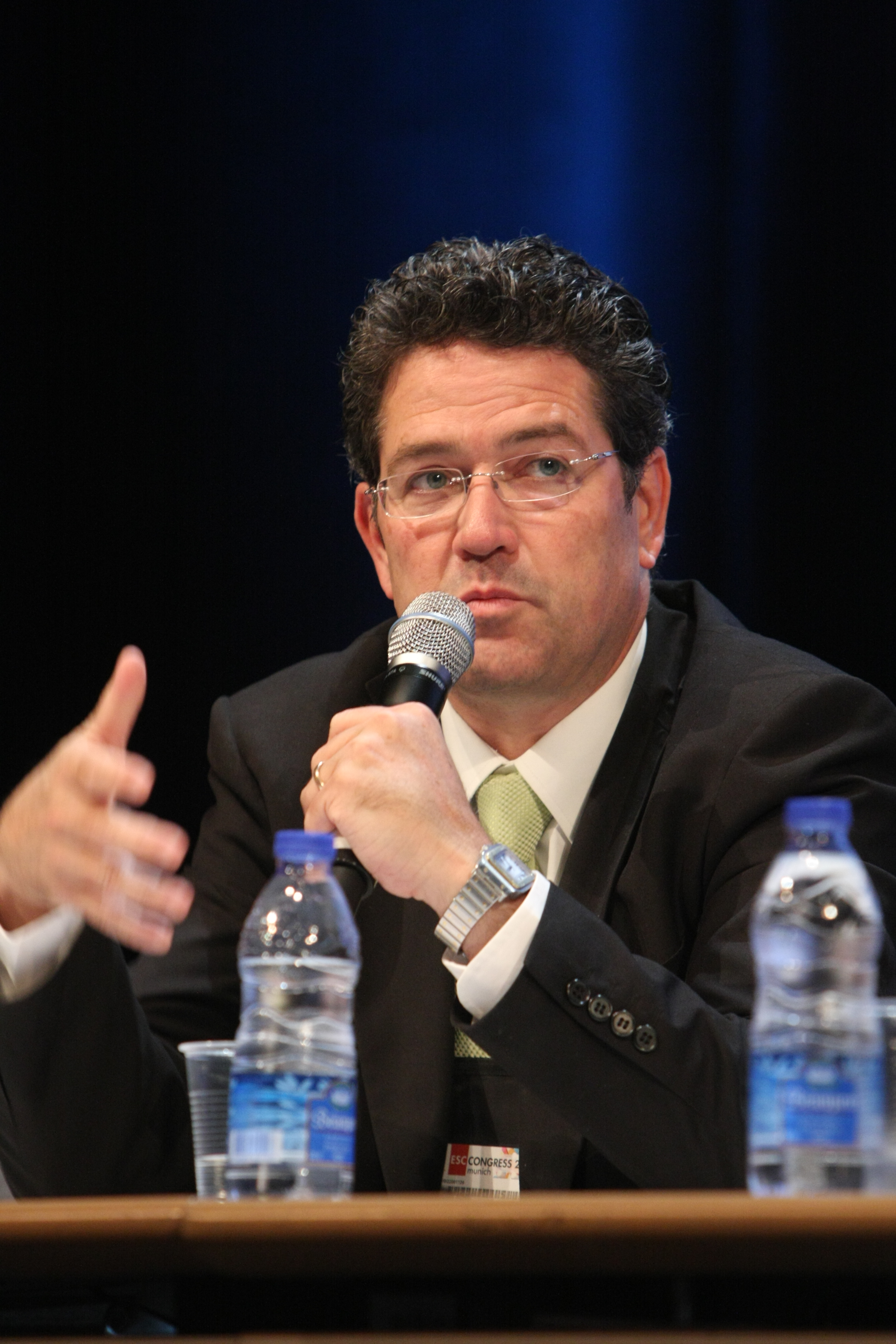 Dan Atar during the ESC congress 2012 in München, presenting the ESC Guidelines on STEMI (heart attack)